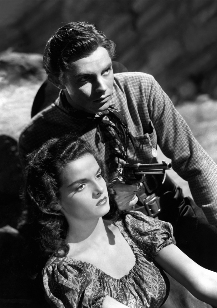 Jack Buetel and Jane Russell in The Outlaw - publicity still